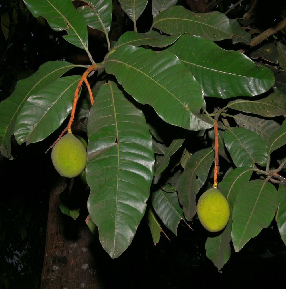 Mangifera odorata, leaves and young fruit. Pandeglang, Banten (west Java), Indonesia